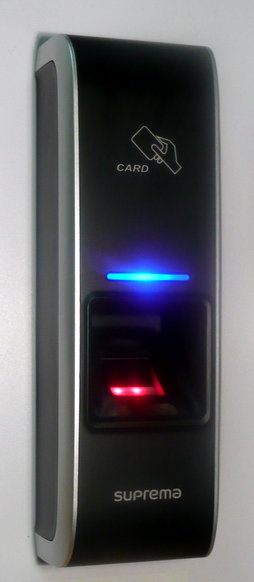 Photo of BioEntry Plus fingerprint IP reader